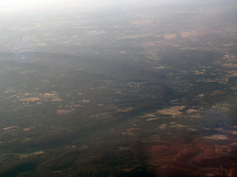 Aerial photo of part of the Somerset Hills region, looking south. Geographical Index, from roughly left to right, near to far: Liberty Corner (fields left-center), Interstate 78 (narrow horizontal grove), The Hills in Bernards Twp and Bedminster, Interstate 287 (broad and curving), Far Hills, Bedminster, North Branch Raritan River (vertical grove), and hills (with Ravine Lake visible) between Bernardsville and Peapack-Gladstone; First and Second Watchung Mountains (parallel ridges) have Washington Valley Road running parallel between them (not visible), the gap at left marks the location of a quarry, Chimney Rock Road, Washington Valley Park, and a resevoir, while the smaller gaps near The Hills (center of photo) mark a gas pipeline; to the south lie Bridgewater Township, Somerville, Raritan, Manville, and other settlements of the Raritan River Valley. Observed on a westbound flight originating in Newark Liberty Intl. The image spans approx. 3 miles horizontally at bottom edge and approx. 5 miles across center.